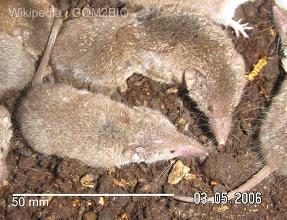 2 Crocidura russula can be clearly seen among some other individuals. They've been taken in a box (captivity) in the Ecology Laboratory of Banyuls-sur-mer, region where they come from.